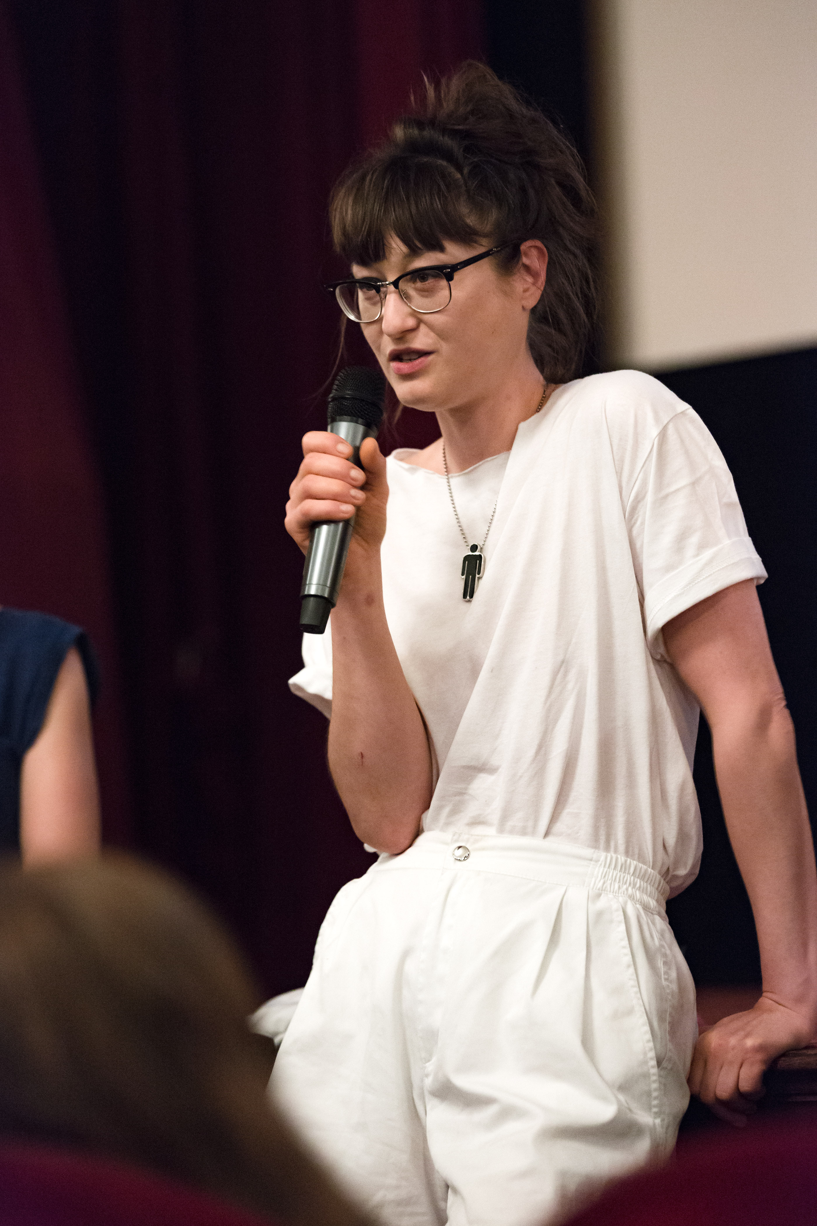 Karin Fisslthaler, Q&A at the short film festival Vienna Shorts 2017, Metro Kinokulturhaus in Vienna, Austria.